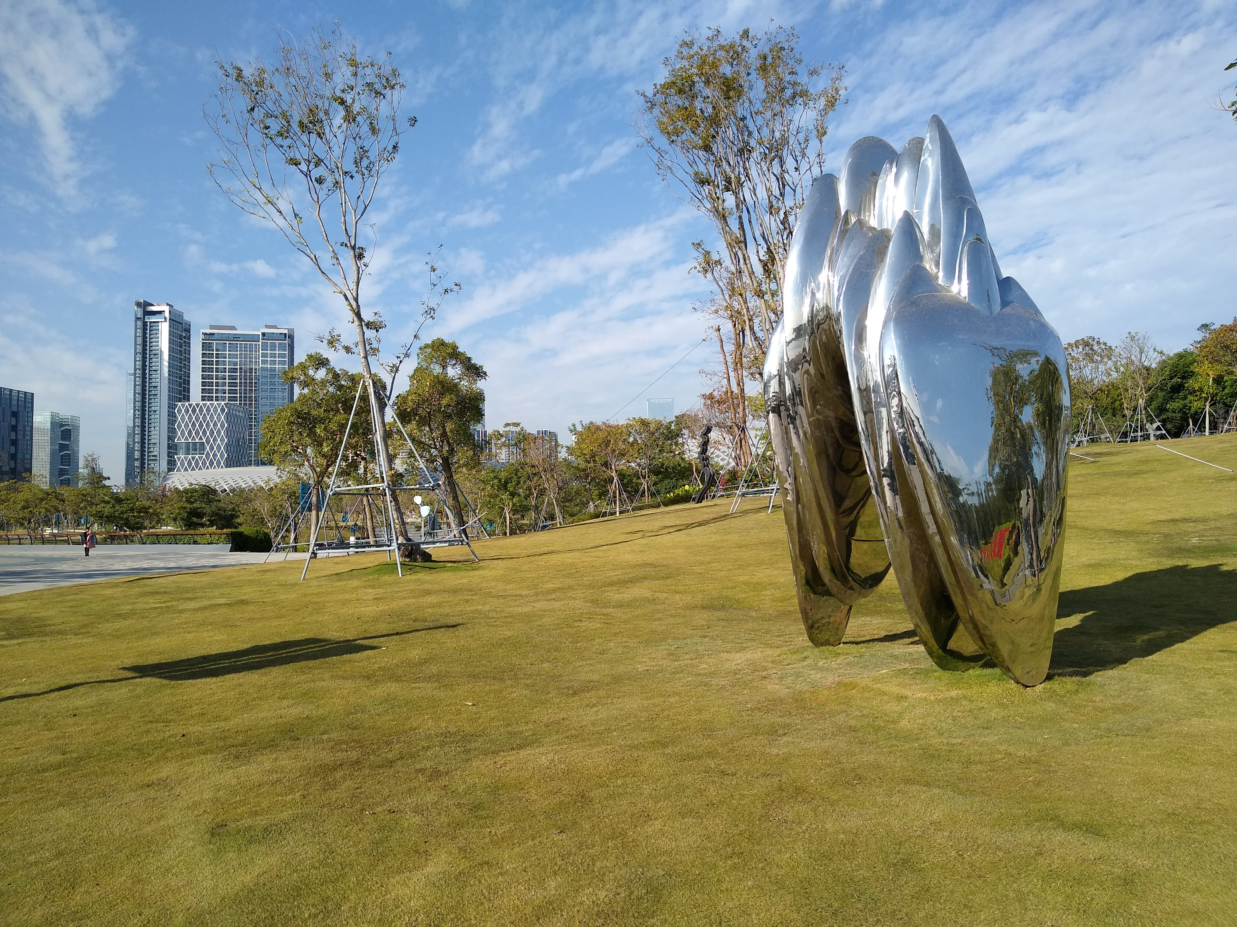 A 2019 sculpture at Shenzhen Bay Park: "量·恒" by artist 李铭燃. Material: high-chromium stainless steel (高铬不锈钢).